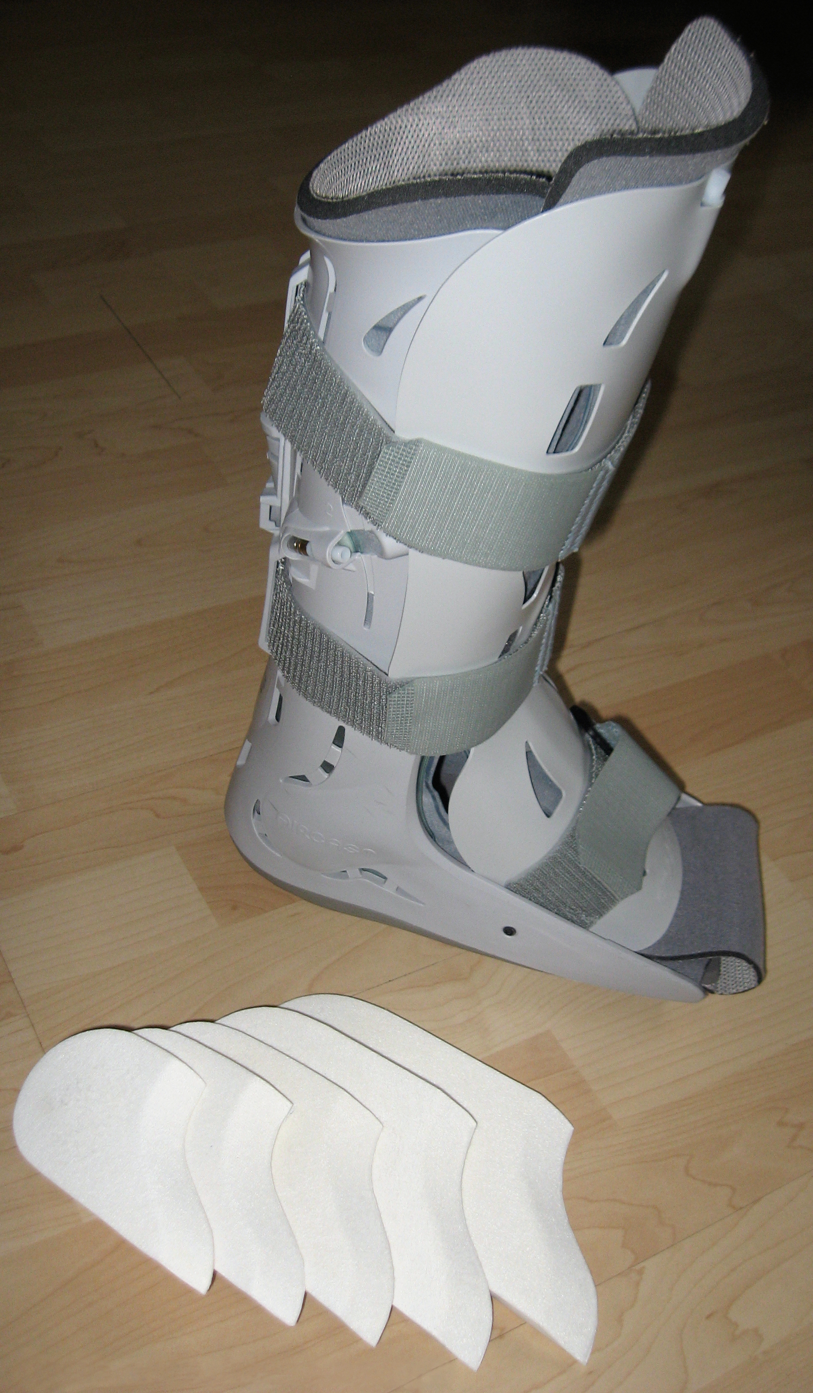 Lower leg orthotic device with five insert wedges (left leg)